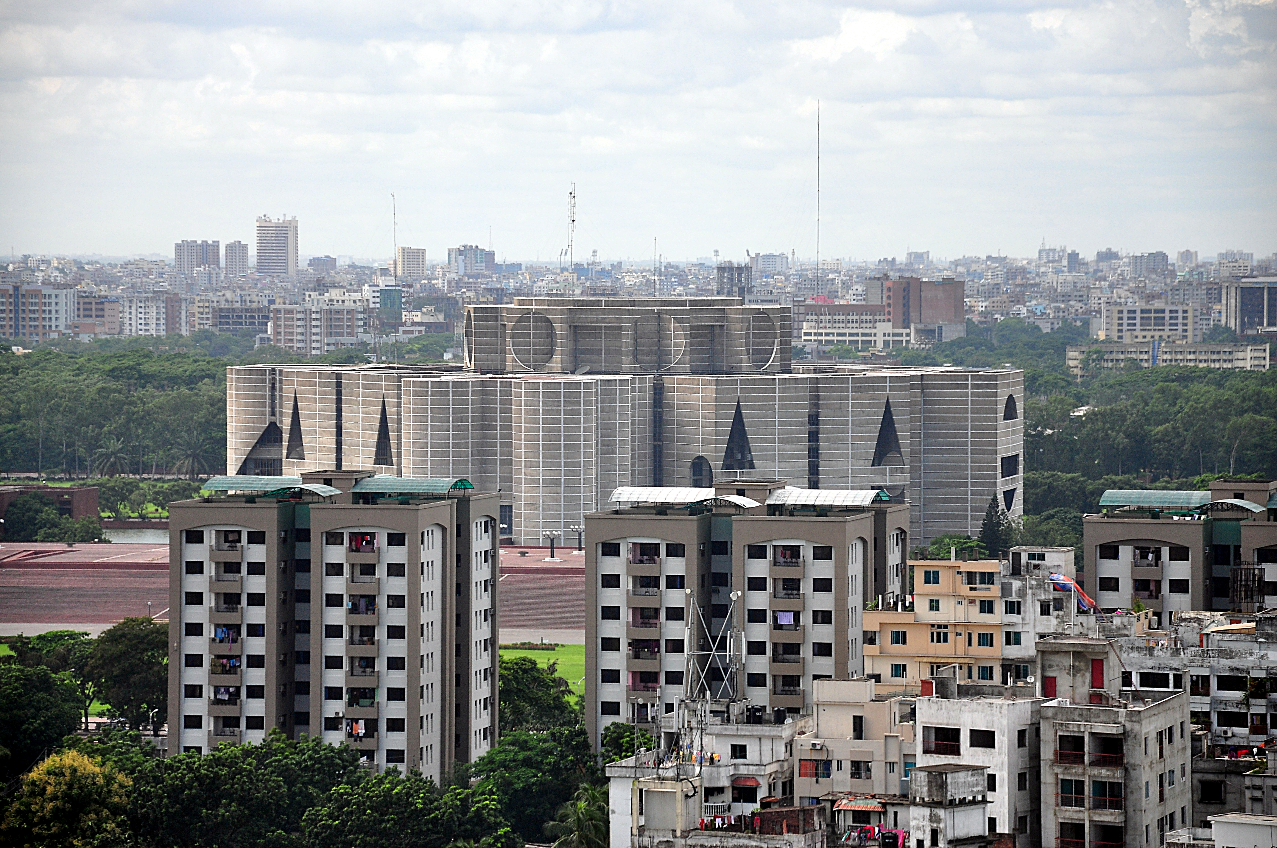 Jatiyo Sangshad Bhaban (National Parliament House) in Dhaka, Bangladesh